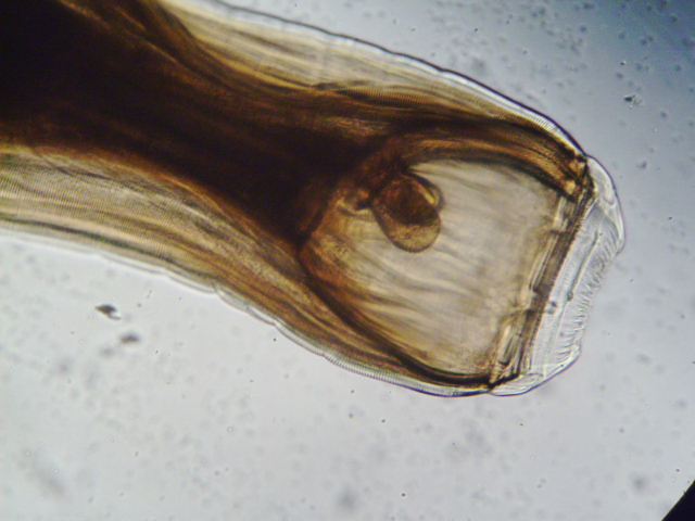 Microscopic photograph of mouthparts or "teeth" of Strongylus vulgaris, an important parasite of horses.